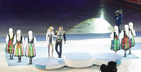 The 2007 European Figure Skating Championships. Torwar Hall (Warsaw). Aliona Sawczenko & Robin Szolkowy from Germany.